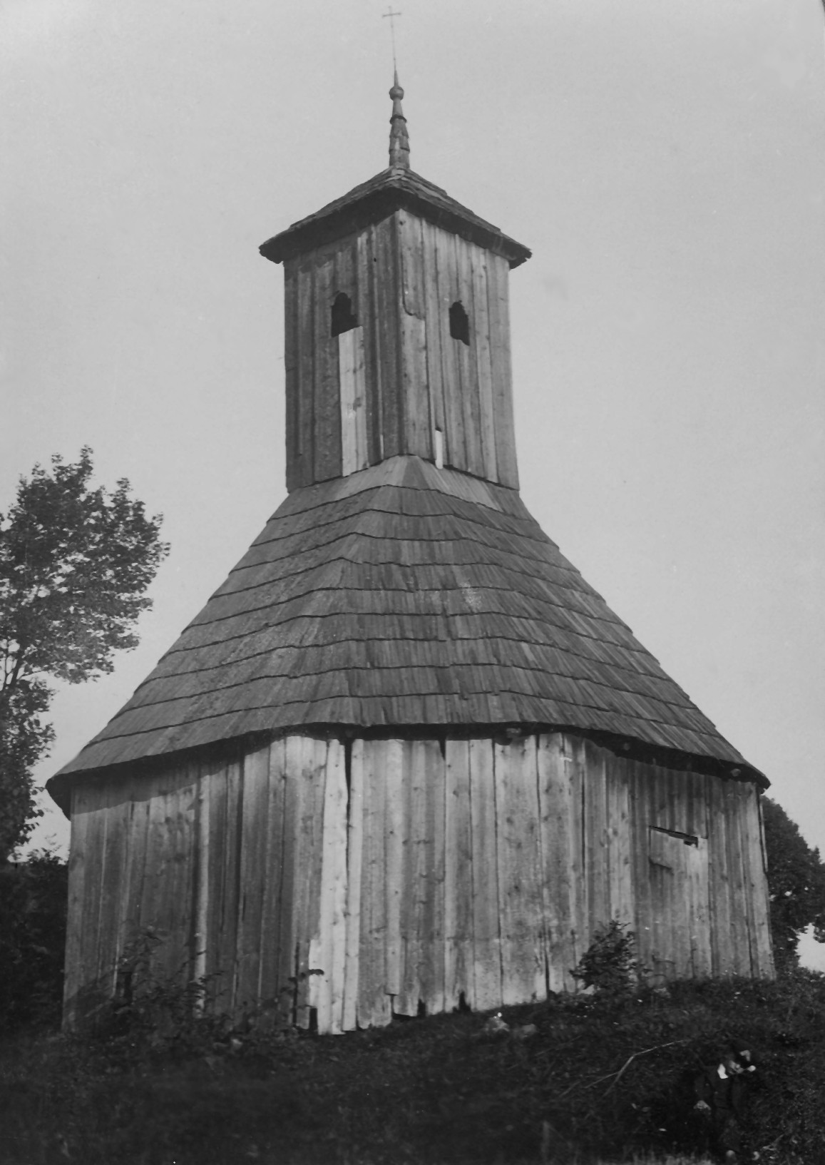 Dřevěná zvonice v Dlouhé Třebové vyfotografovaná v roce 1906 před svým zánikem